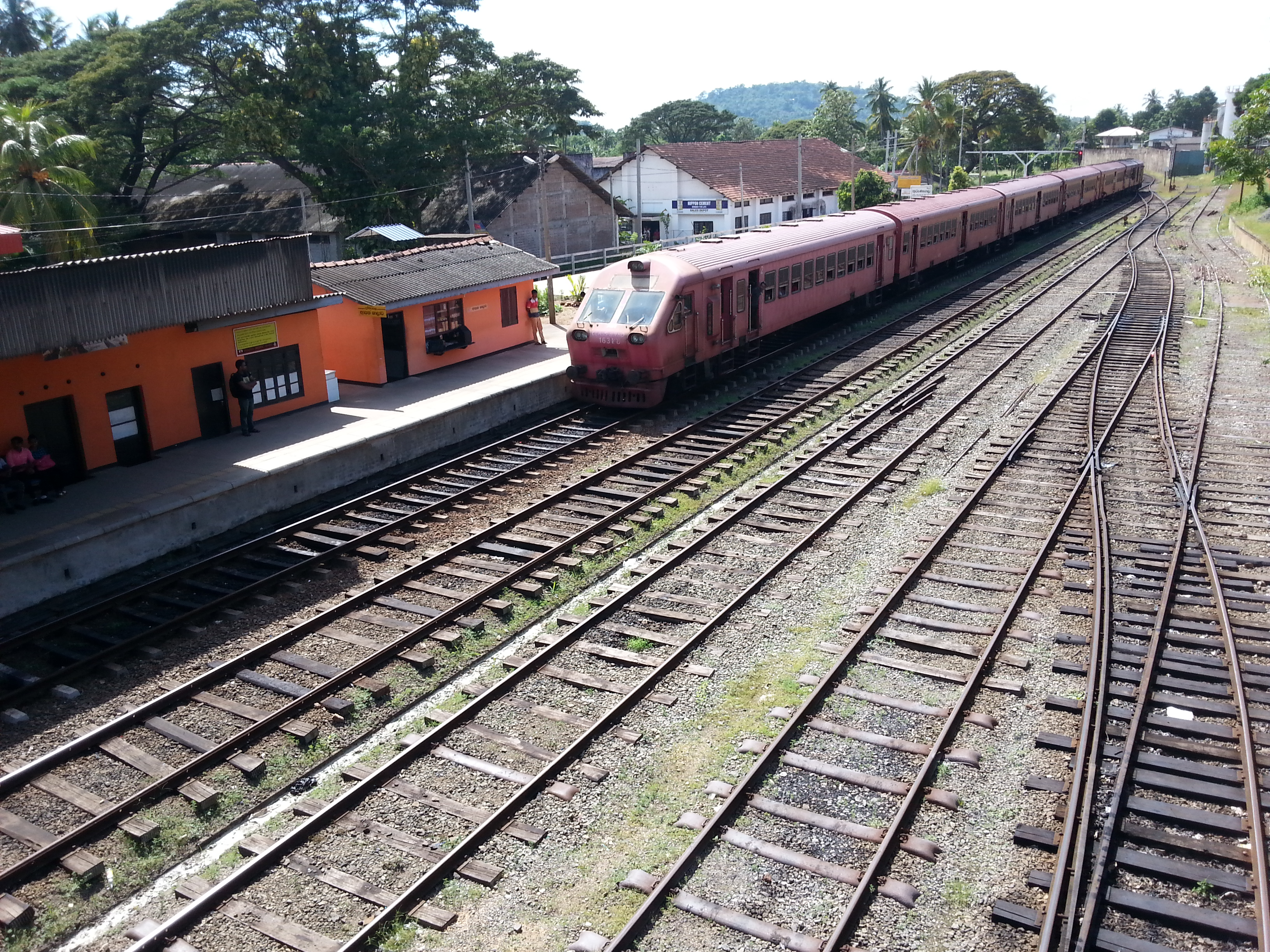 Uttara Devi Train at Kurunegala Railway Station, Heading Kankesanthurai, on 2017.12.26